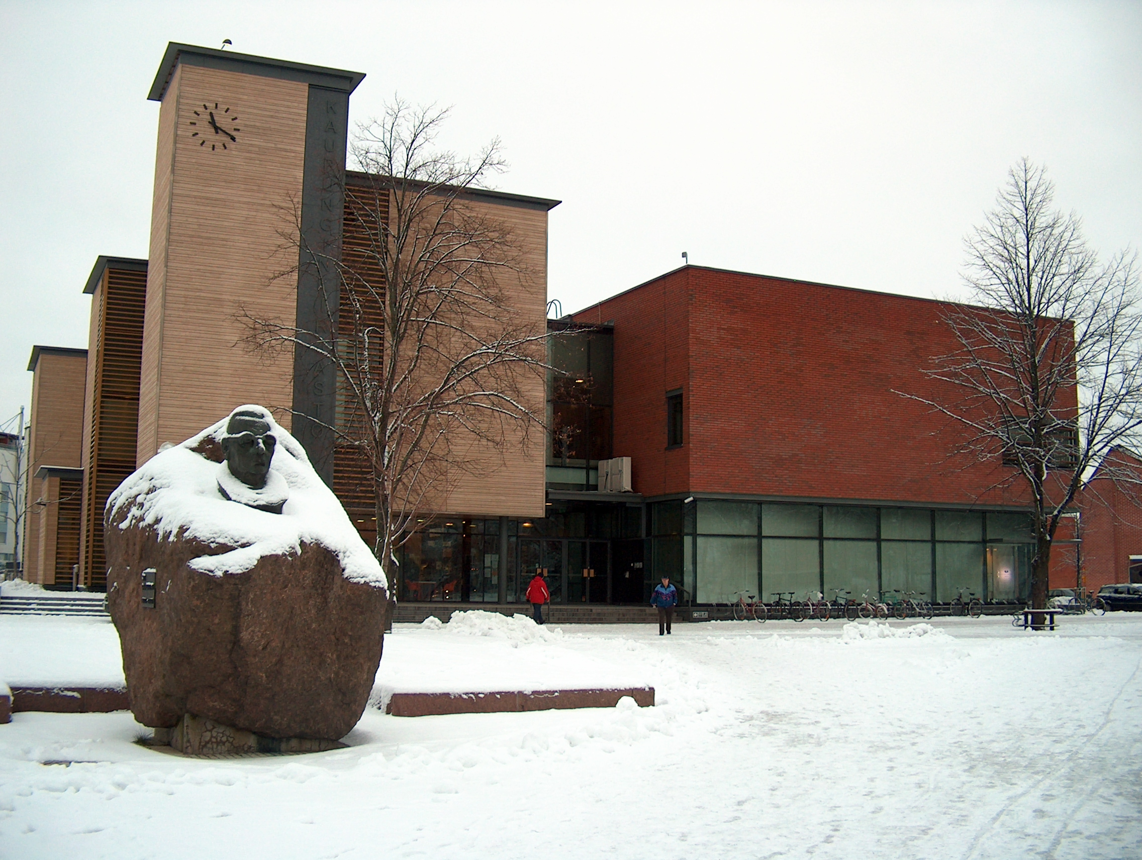 Kerava Town Library and Paasikivi Memorial